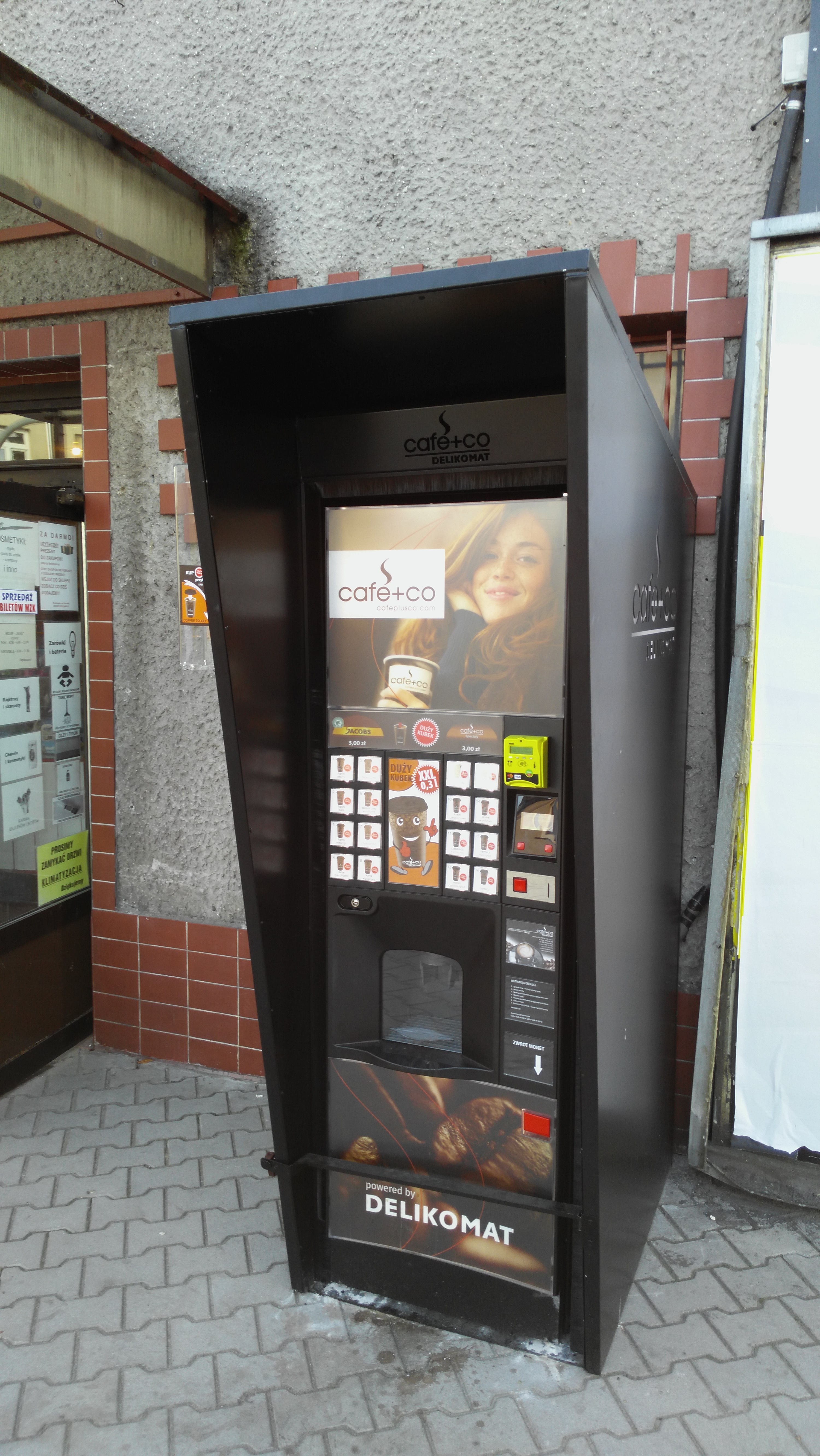 Całodobowy kawomat na rogu Warszawskiej i Szerokiej w Tomaszowie Mazowieckim